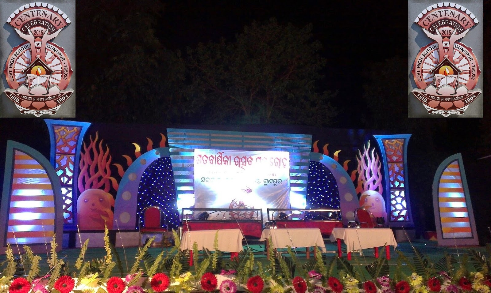 GUNUPUR GOVT BOY'S HIGH SCHOOL 100 YEARS CELEBRATION